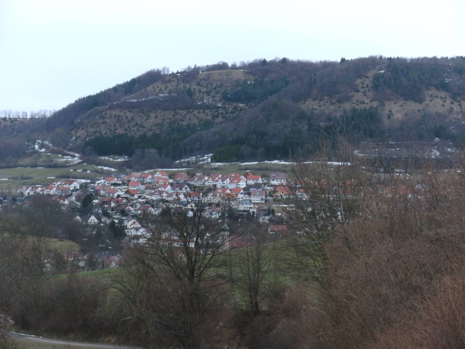 View on Nenningen, part of the City Lauterstein in Baden-Württemberg, Germany In the background the Galgenberg (717 m)